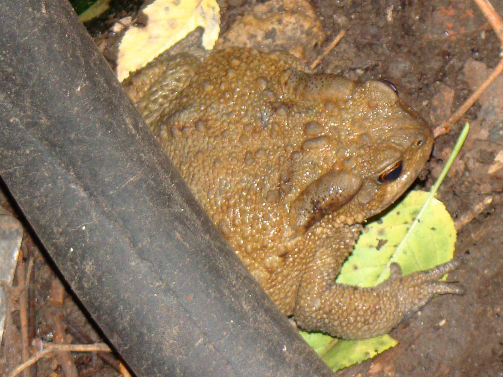 Caucasian Toad (Bufo verrucosissimus). Russia, Krasnodar kray, Ust'-Labinsk.